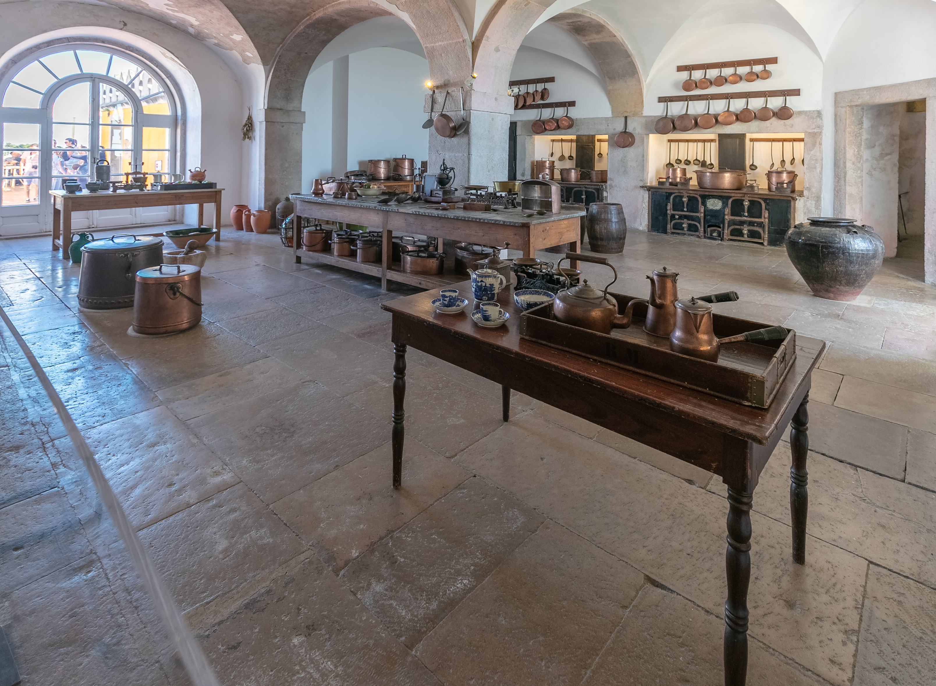 Palácio Nacional da Pena, Sintra, Portugal